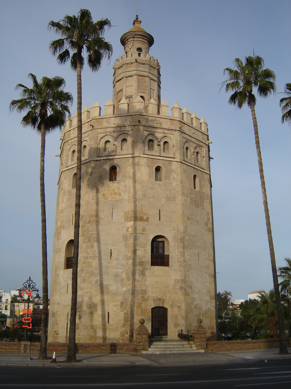 The design of Rackette instrument is similar to the towers outside the city walls of Seville.